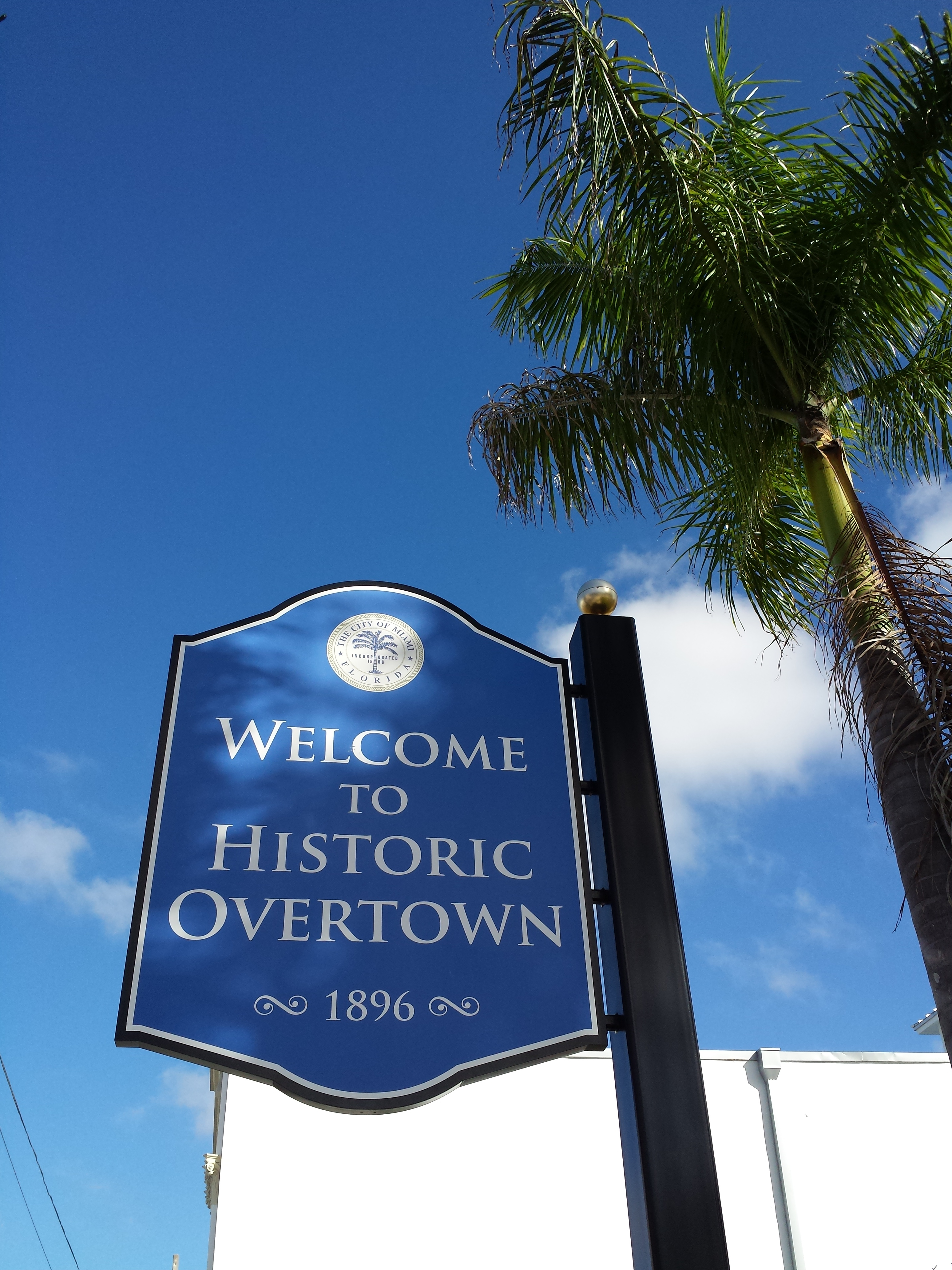 Overtown Folklife Village, NW 2nd and 3rd Avenues NW 8th and 10th Street, Miami, FL